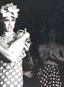 Christer Lindarw debuts doing "Fever" as "Obvióla" in Wild Side Story, as released by image creator Lars Jacob ProdPlace: Alexandra's, Biblioteksgatan 5, Stockholm, Sweden